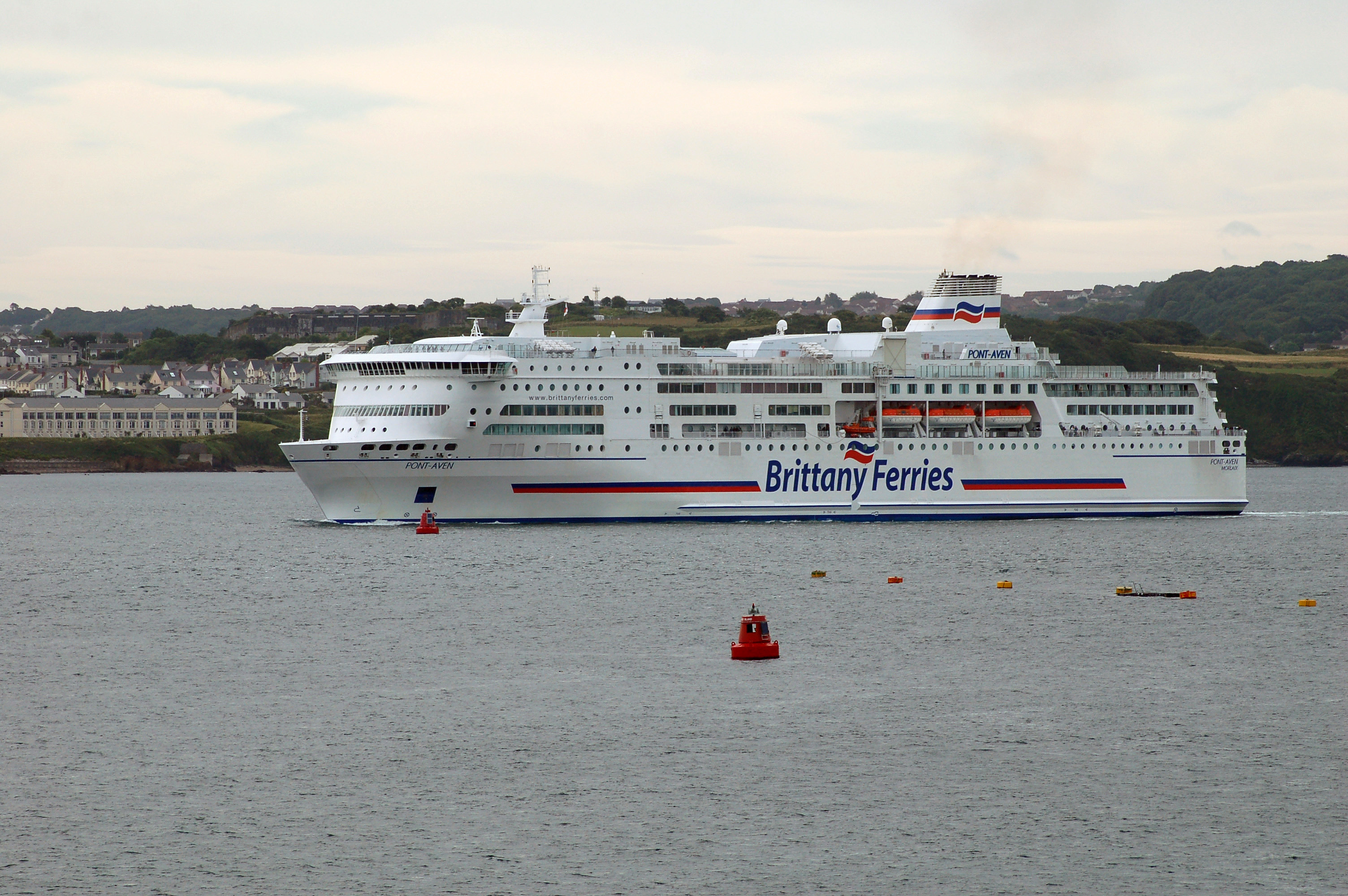 The MV Pont-Aven in Plymouth Sound. The image is from Devil's Point and Stamford Fort is visible behind the ferry.